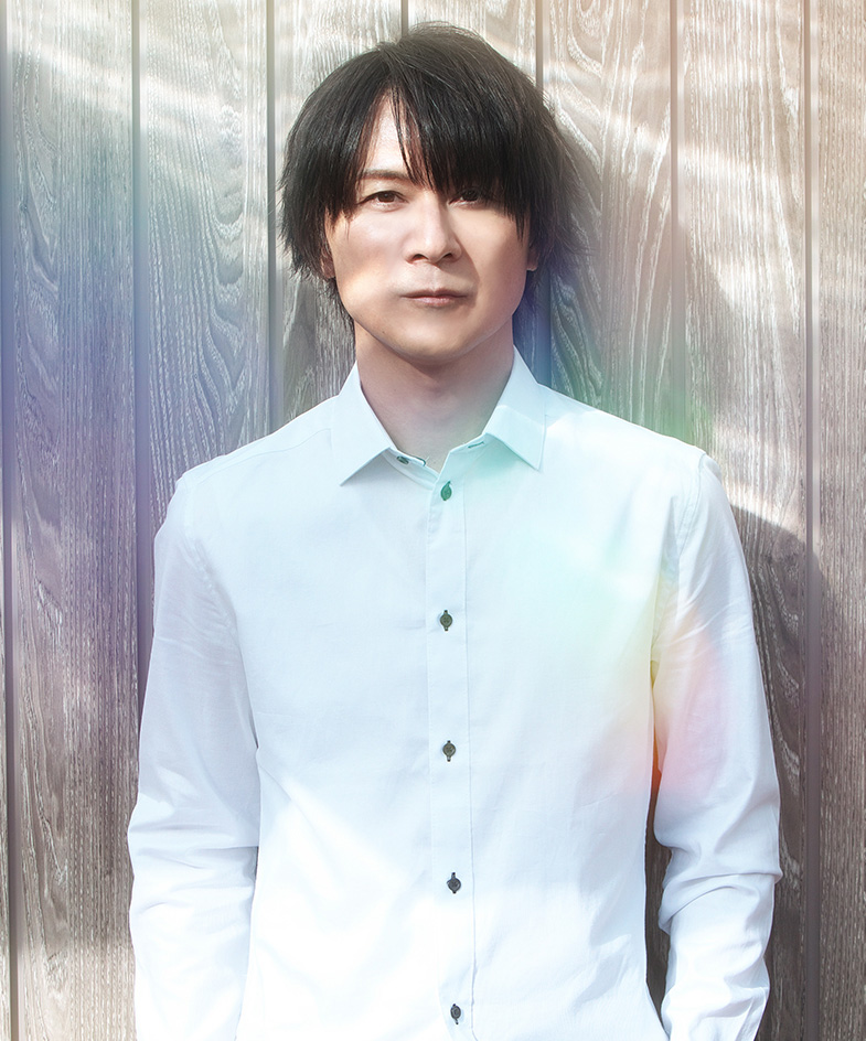 Yasunori Mitsuda at Sunshine Aquarium (Tokyo) in 2019